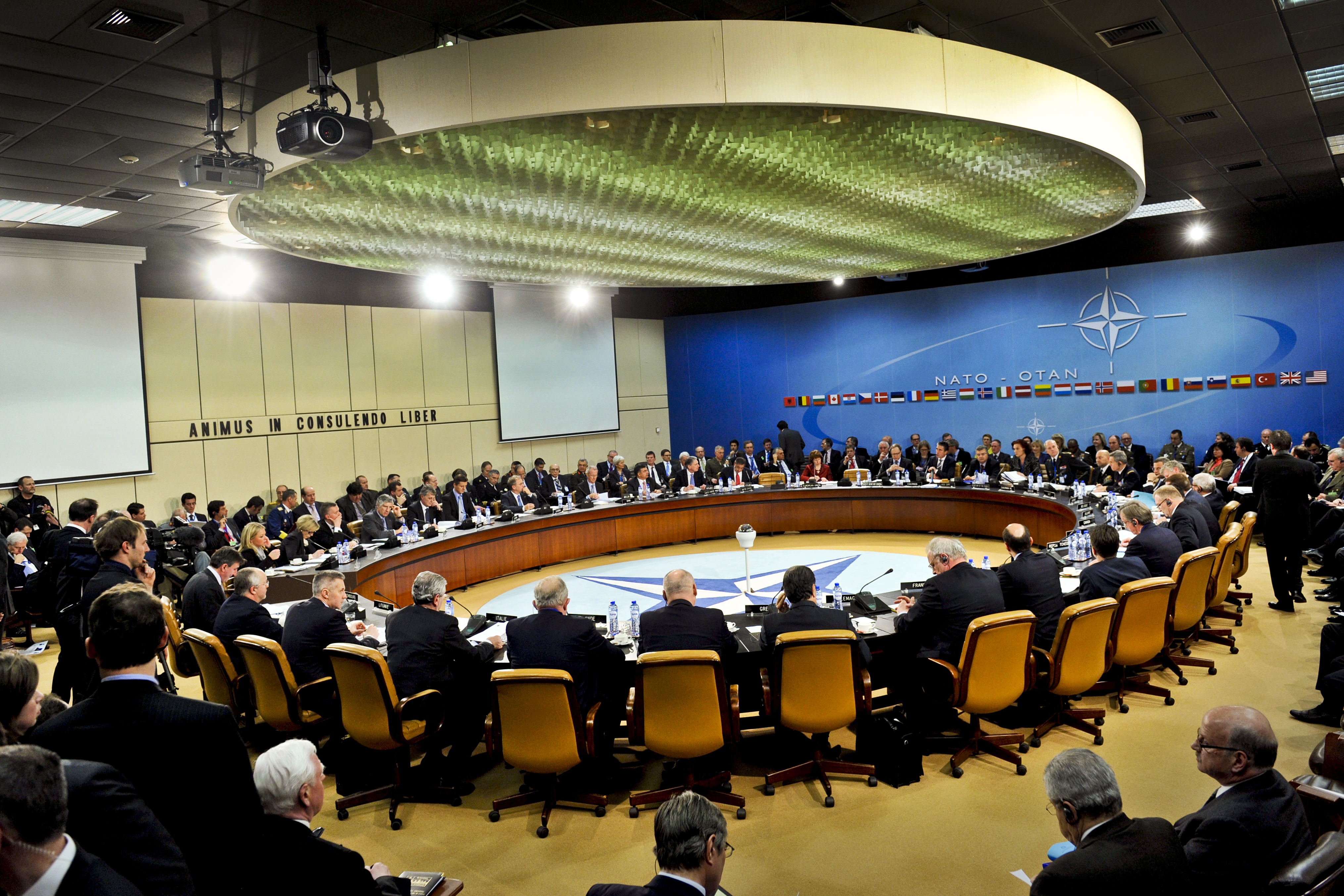 A meeting of the NATO Ministers of Defense is convened in Room 1 at NATO Headquarters in Brussels, Belgium, Feb. Secretary of Defense Leon E. Panetta is in Brussels, Belgium to meet with NATO counterparts Feb. 21, 2013. (DoD Photo By Glenn Fawcett) (Released)